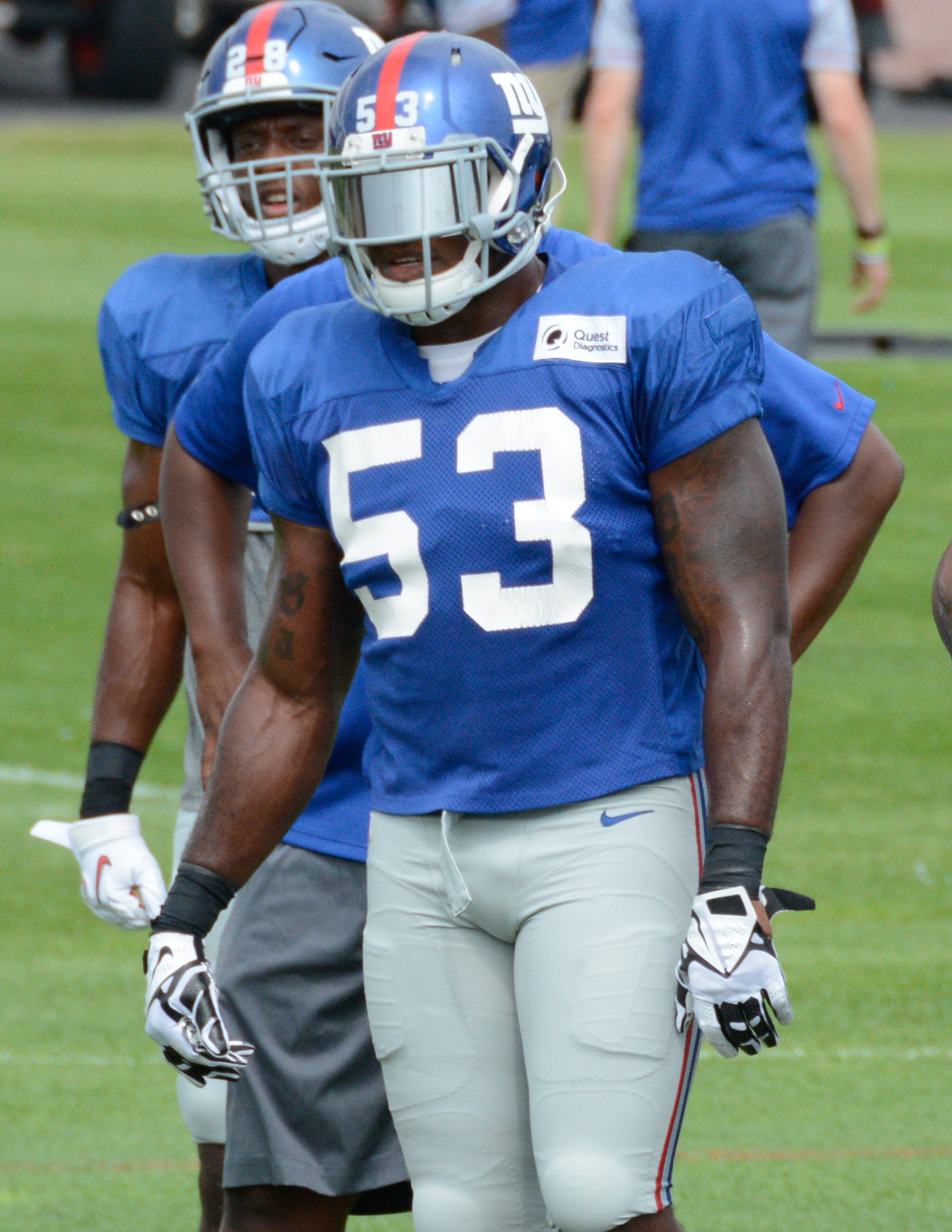 New York Giants training camp